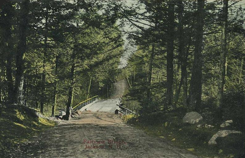 Fairview Bridge, Jackson, NH; from a c. 1912 postcard.